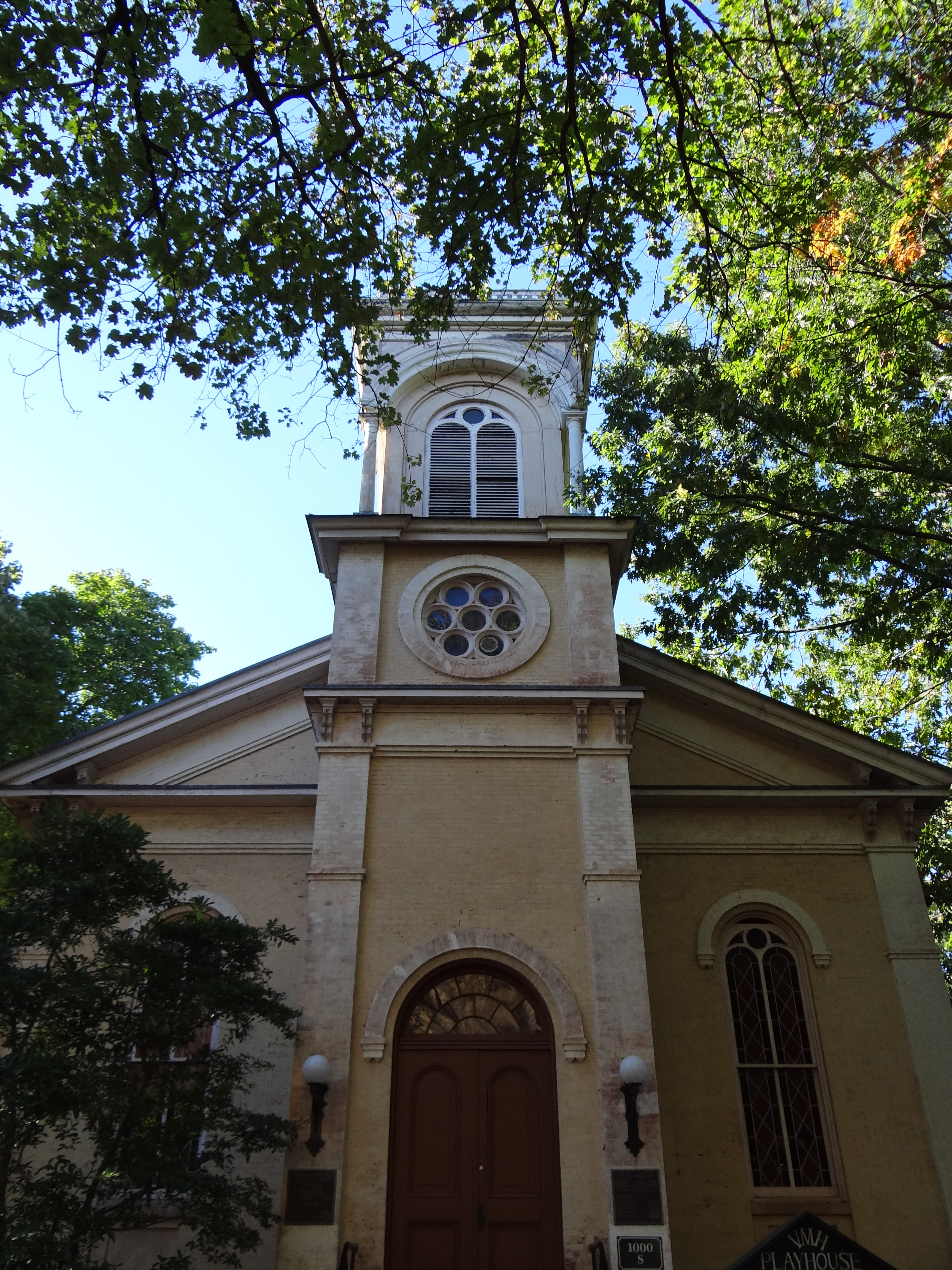 Veteran's Memorial Hall